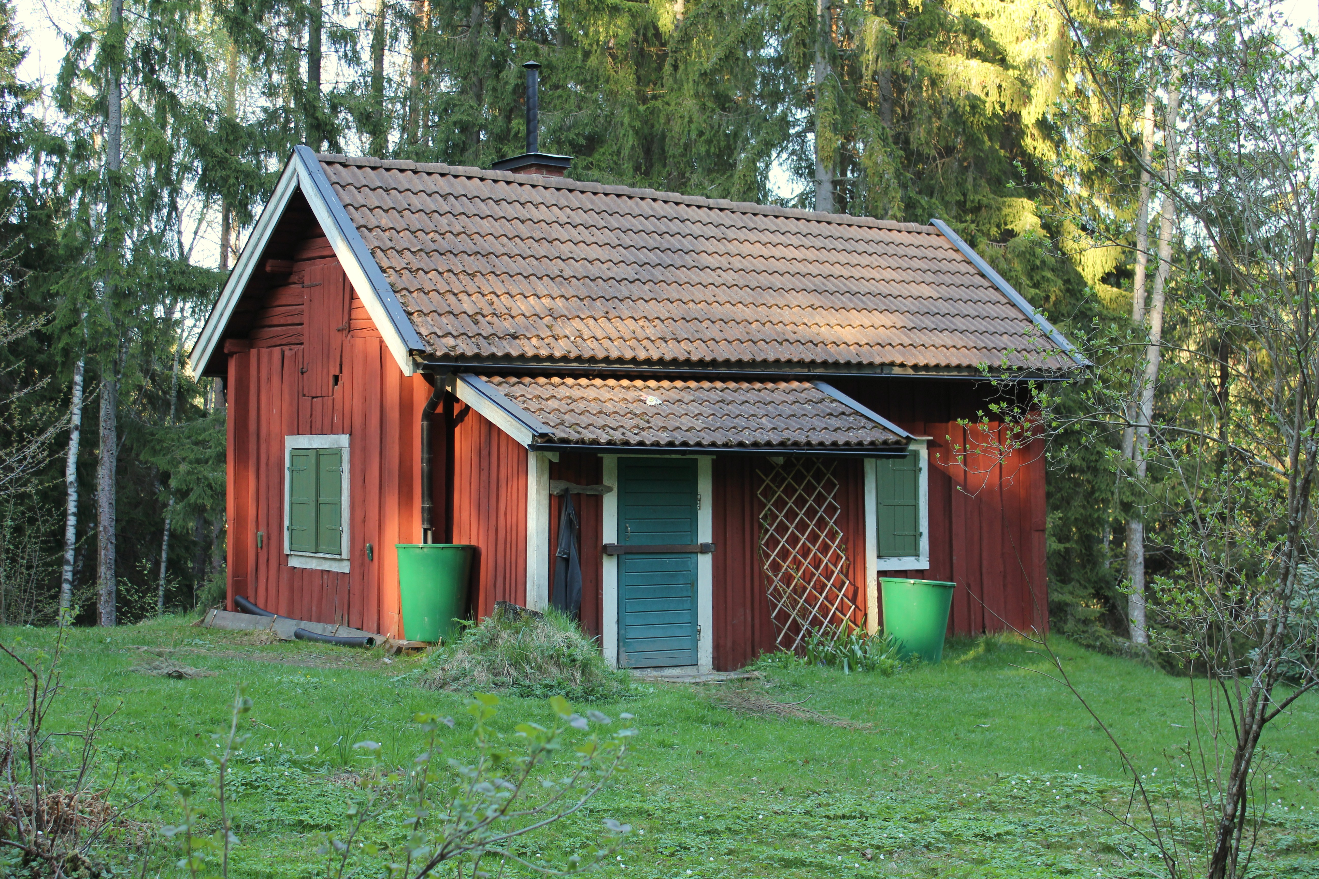 The torp (cottage) Katrineberg in Vinterskogen nature reserve in Botkyrka municipality south of Stockholm, Sweden.